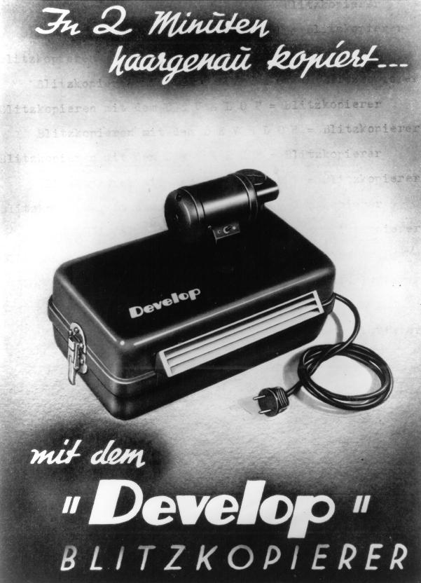 Develop Blitzkopierer